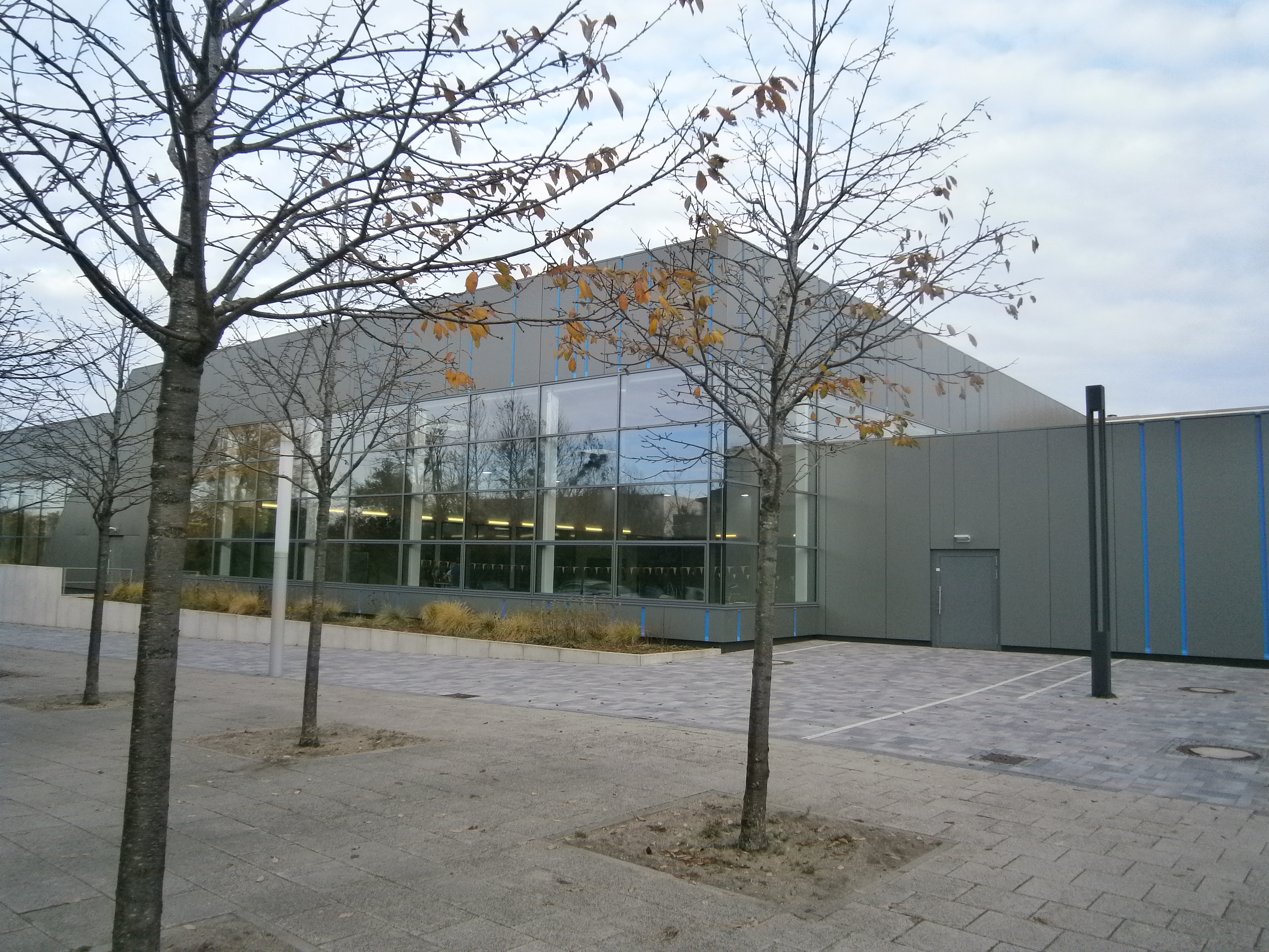 It's autumn. Indoor swimming pool Grosser Dreesch in Bernhard-Schwentner-Strasse in Schwerin, in Mecklenburg-Vorpommern, Germany. It is in opposite to the market place Dreescher Markt and was opened in 2015.